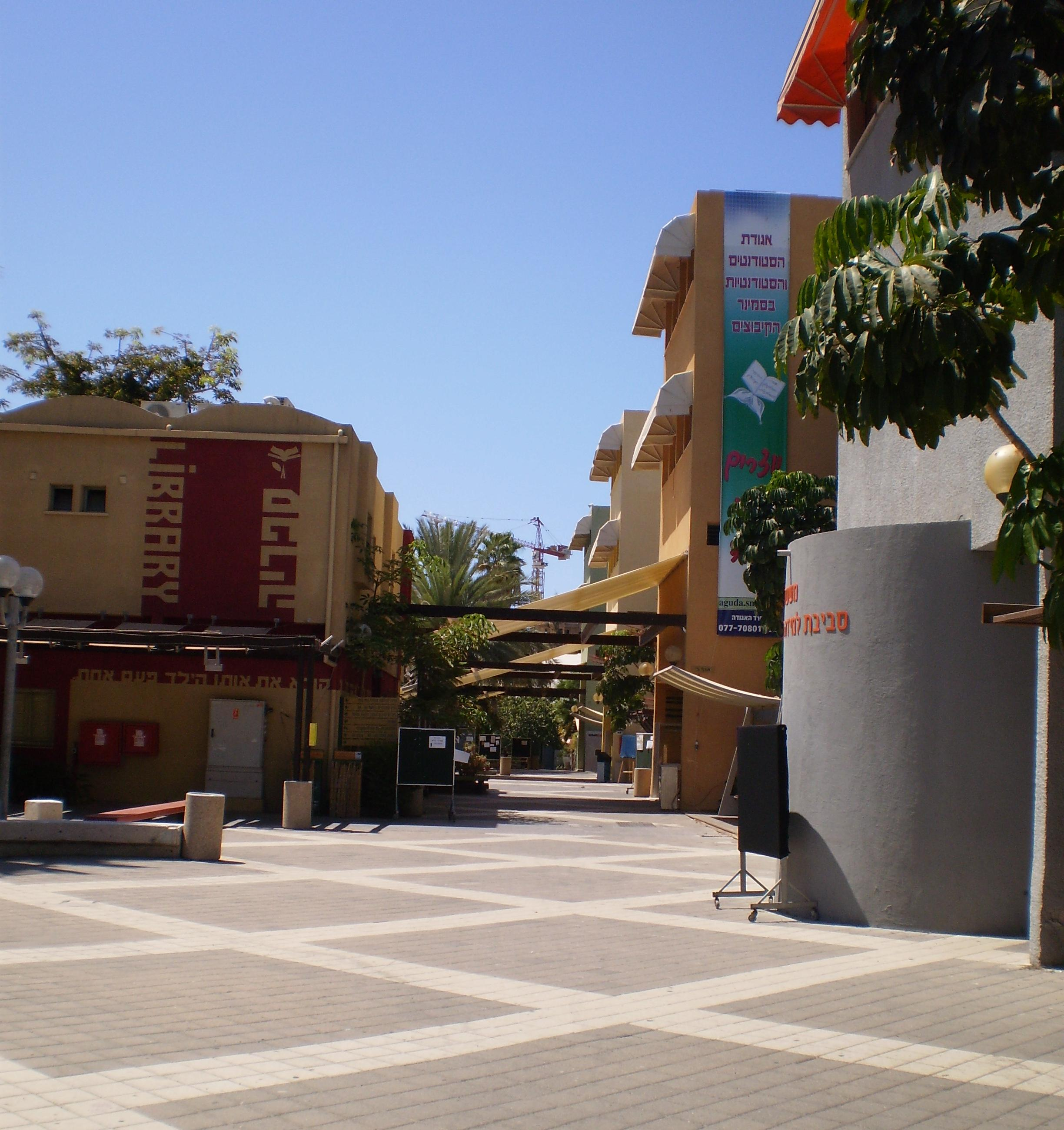 Kibbutzim College, Tel Aviv